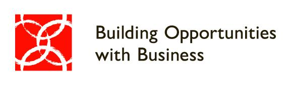 The Logo of Building Opportunities with Business, created by Karo, Vancouver BC for BOB in 2008